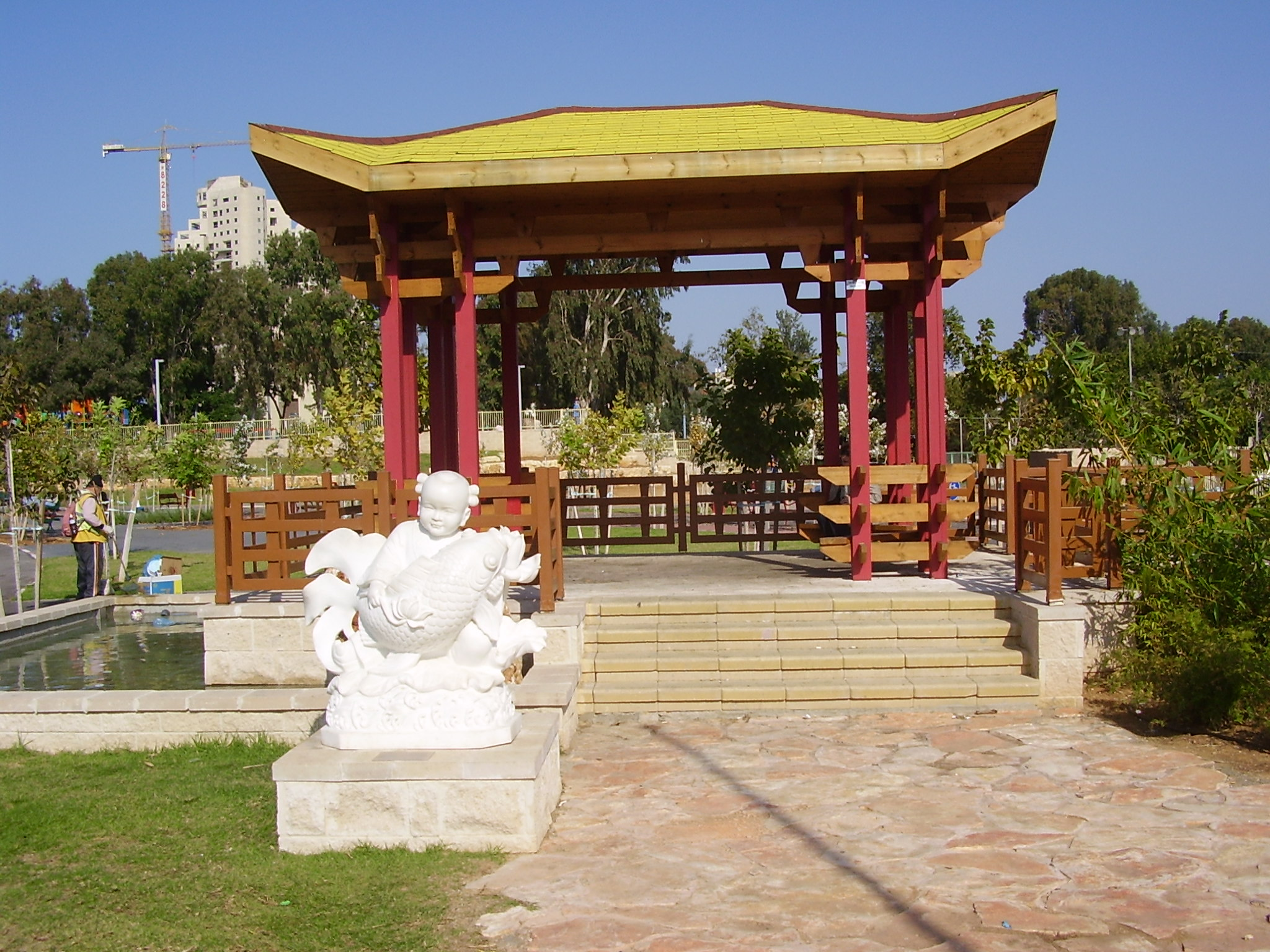 tianjin pavillion in rishon lezion ביתן טיינג'ין בפארק הערים התאומות בראשון לציון